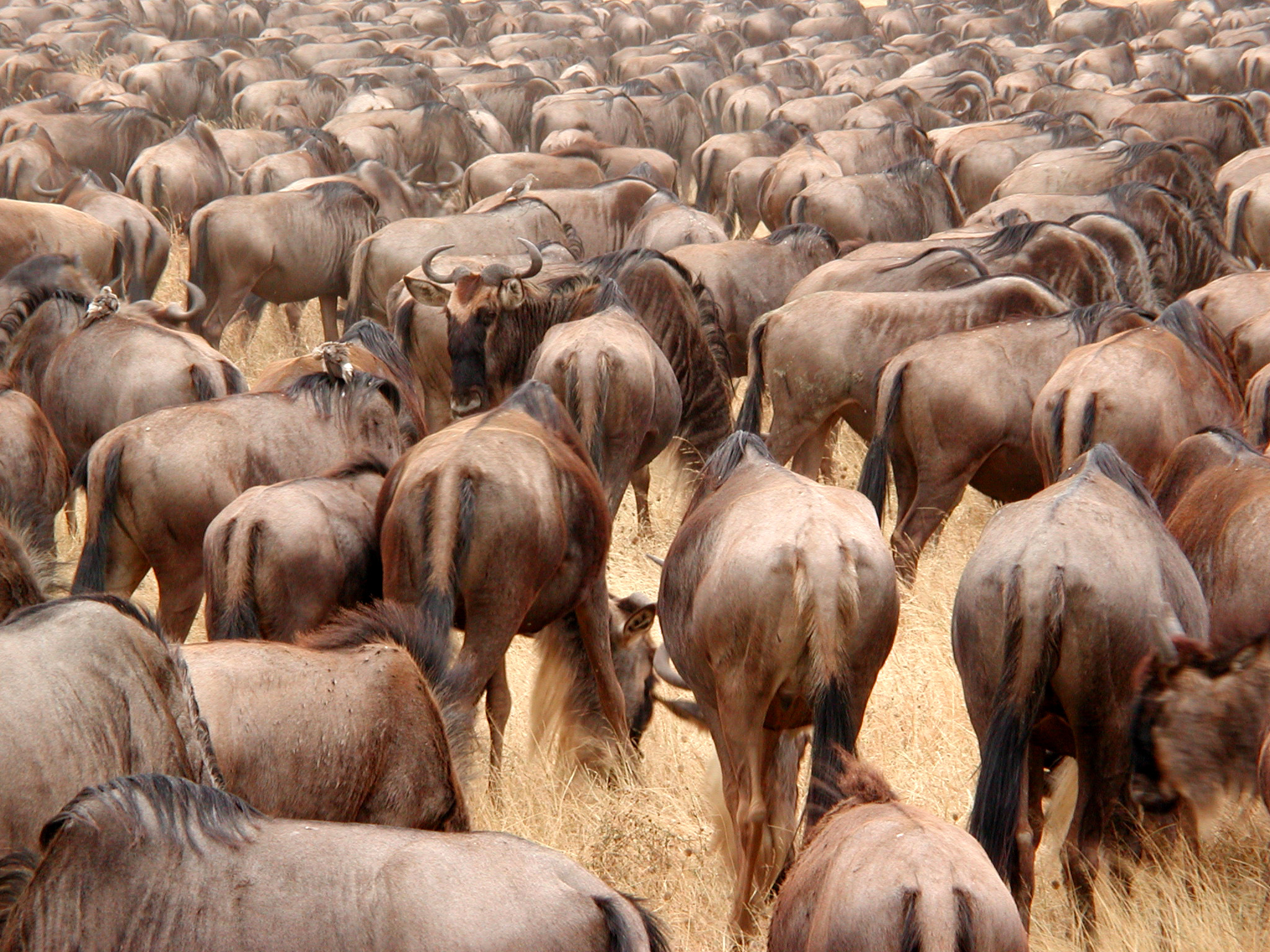 A herd of gnus in the Ngorongoro park. The leader in the center is watching the others.